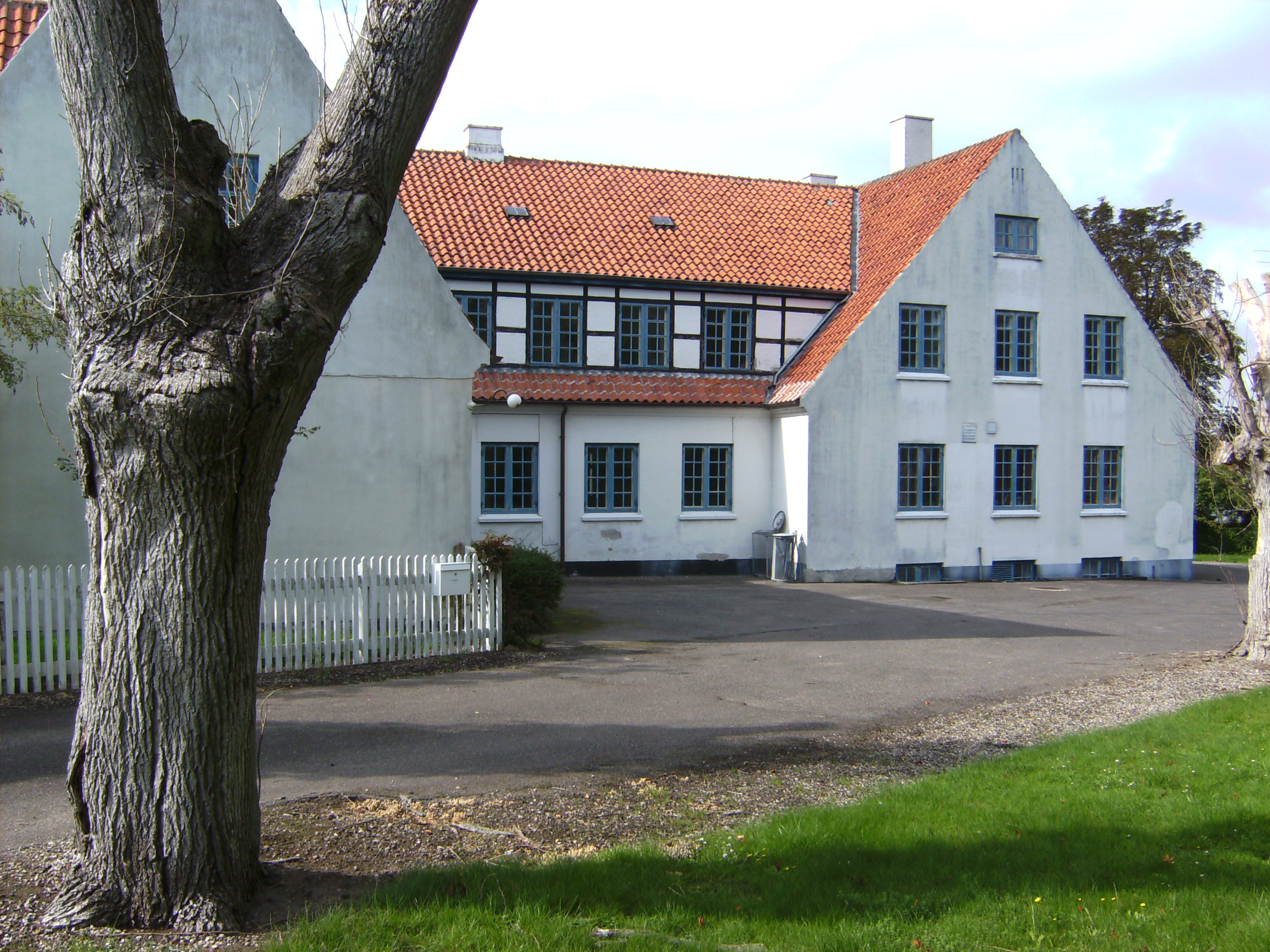 A former school in Nysted, Denmark